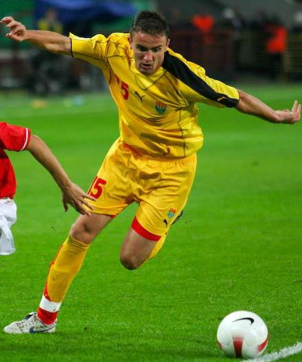 Aleksandar Vasoski in Macedonia national football team